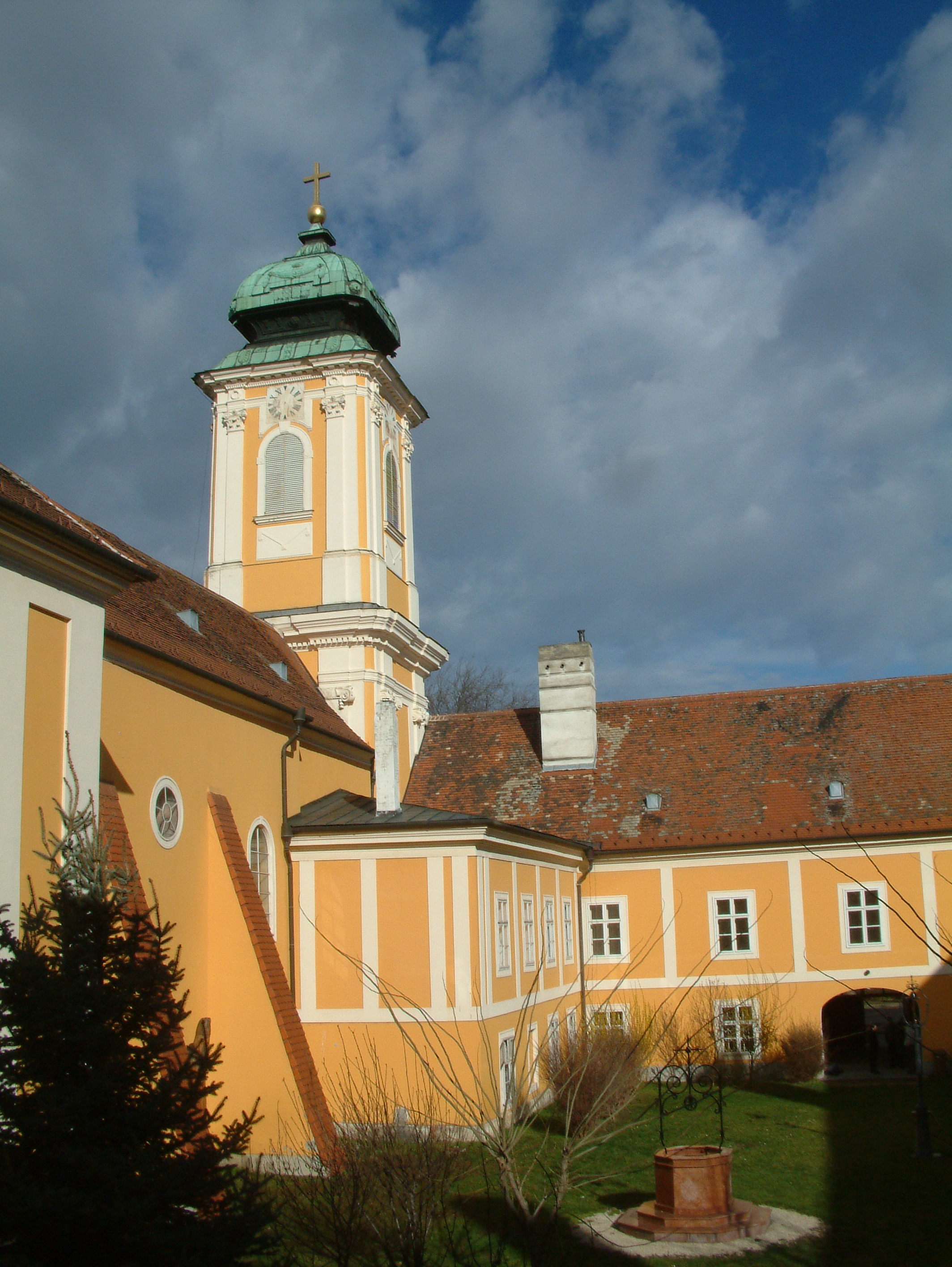 Norbertine abbey of Csorna, Hungary